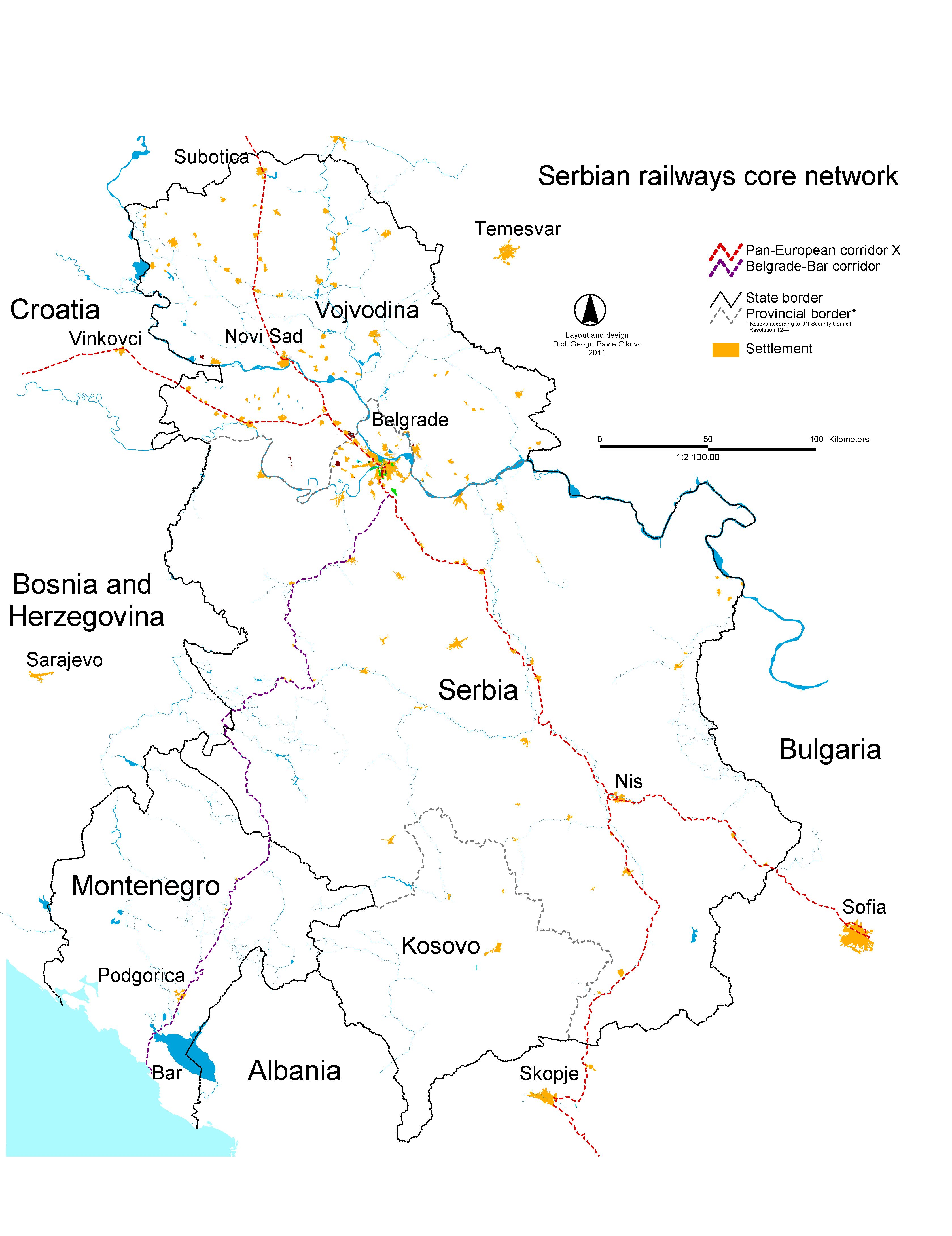 The core network of the Serbian railways consists of the paneuropean corridor X core and in addition the Belgrade-Bar railway which connects the danubian/pannonian asin to the adriatic coast